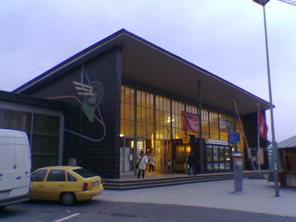 Train station Aschaffenburg